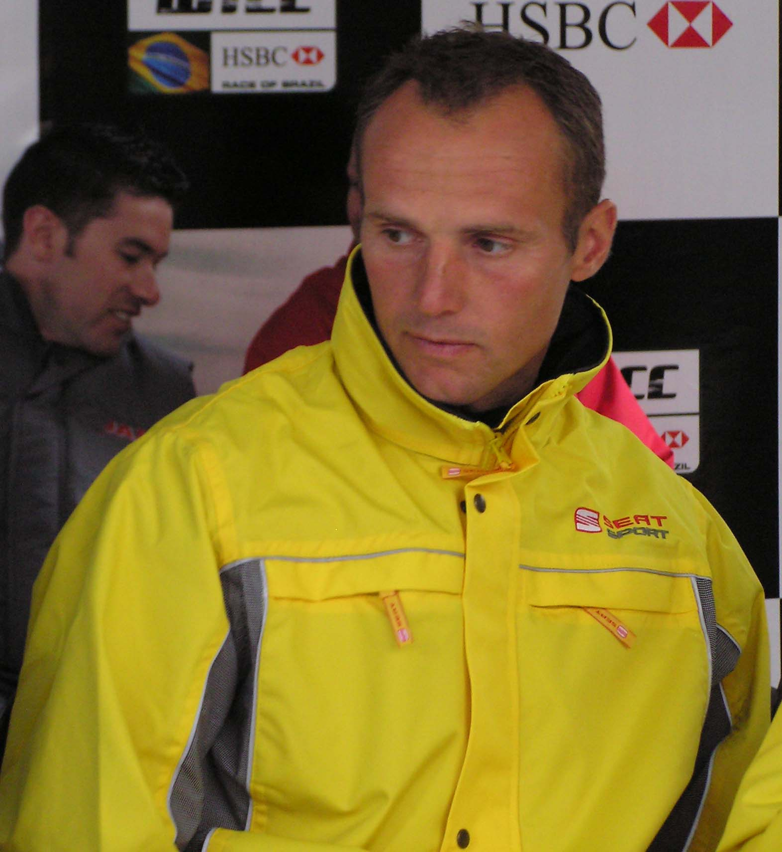 World Touring Car Championship 2006 Curitiba: Rickard Rydell (SEAT Sport Sverige)